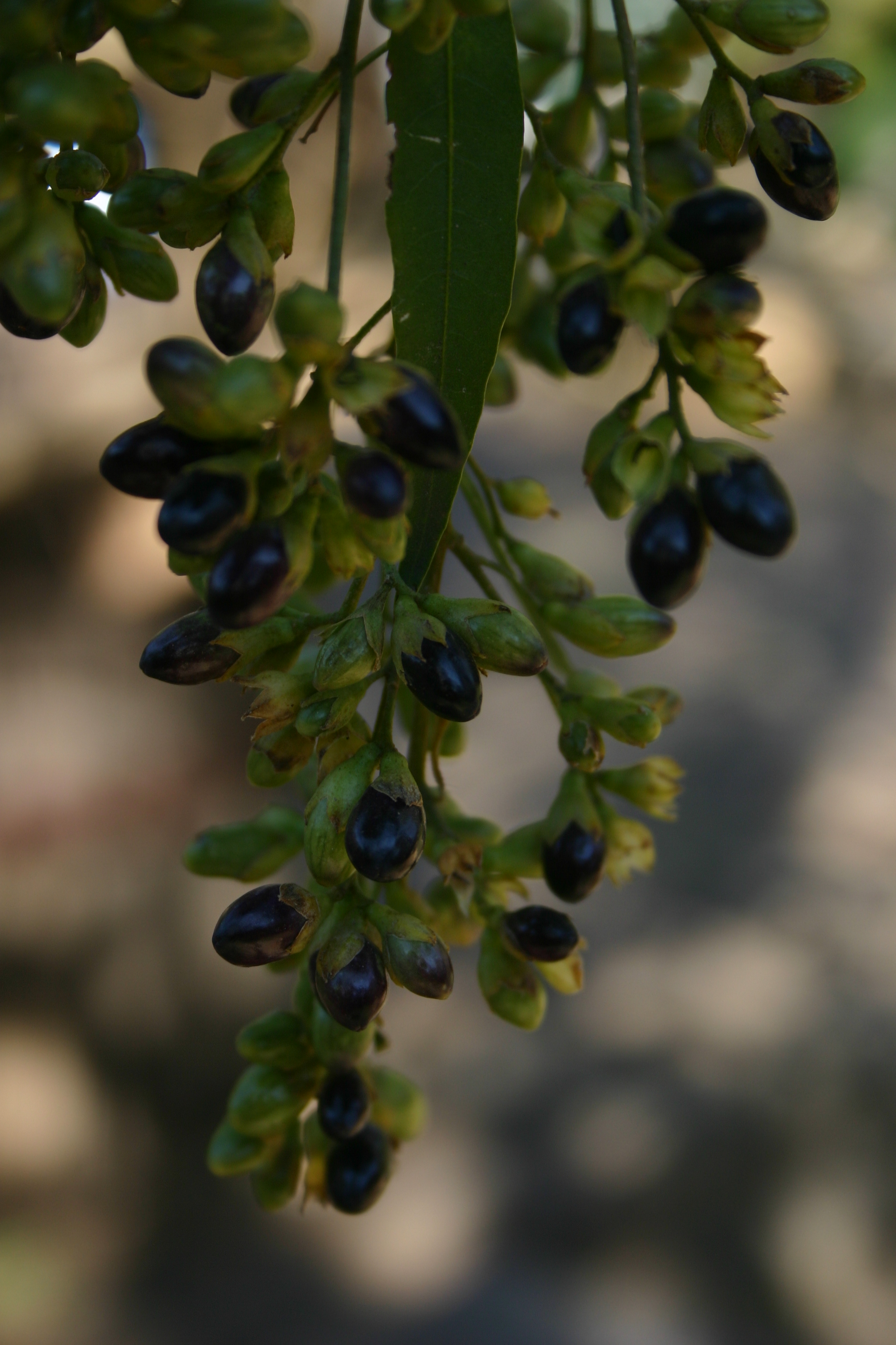 Fruits of Cestrum parqui, 5mm diameter x 10mm length, Johannesburg garden. Appearance of miniature brinjals (Solanum melongena)